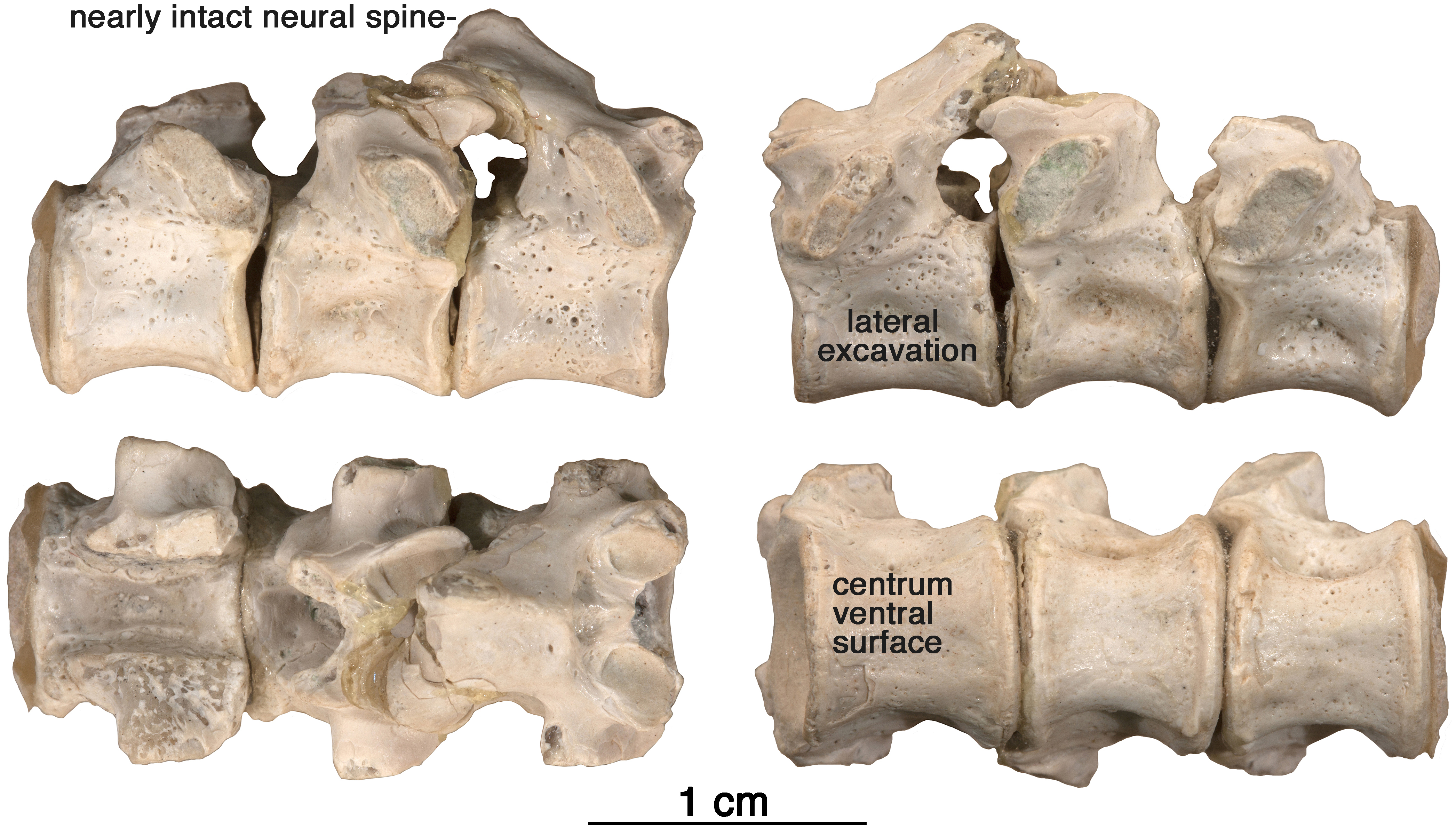 Arisierpeton simplex dorsal vertebrae